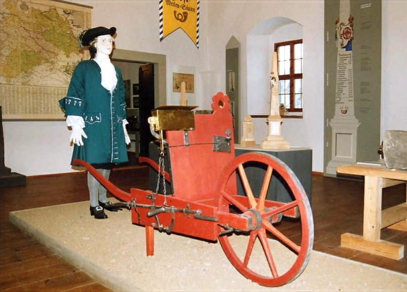 This image shows the replica of a measuring wheelbarrow from the 18th century. It was used to measure distances for postroutes and ist nowadays shown in the museum of Lauenstein in the Ore Mountains in Saxony, Germany.